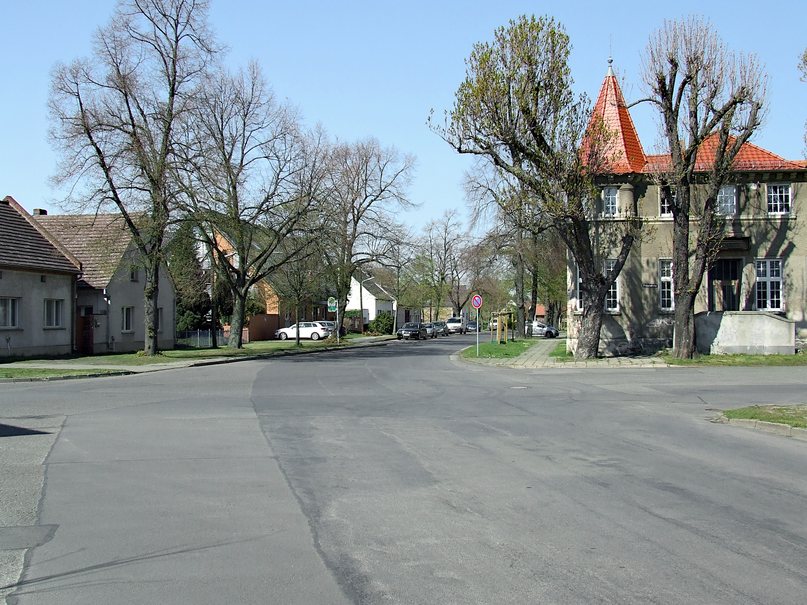 Village centre of Cottbus-Saspow.